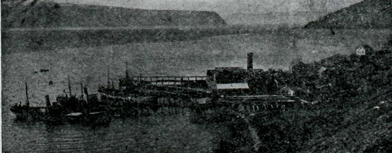 Herring smelt factory in Stekkeyri Hesteyri in Iceland